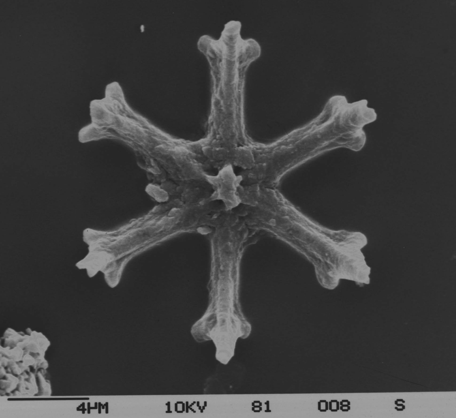 Discoaster surculus - Tertiary fossil skeleton of nannoplankton; from a sample of a marine sediment core